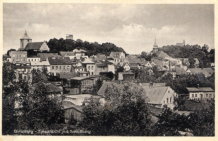 View of Christburg and its castle